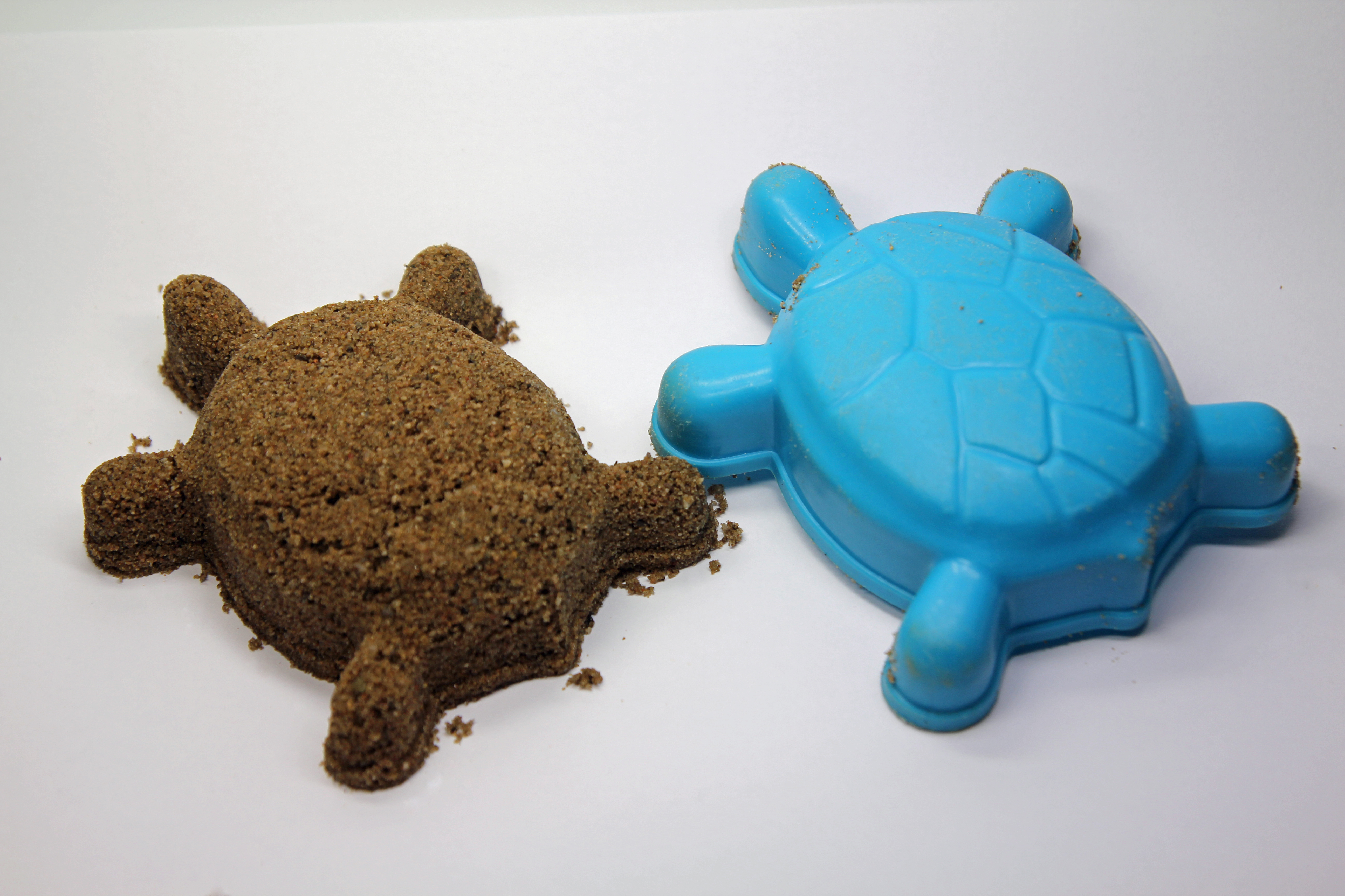 sand turtle and sand mold